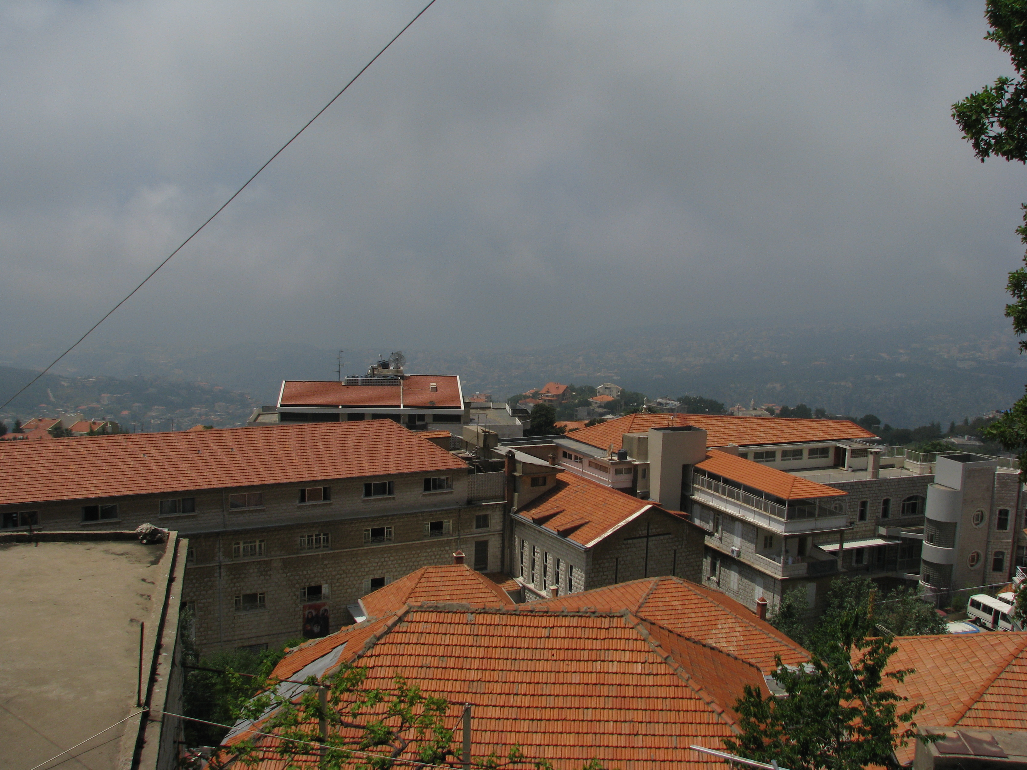 Over the Red Roof tops of Bikfaya